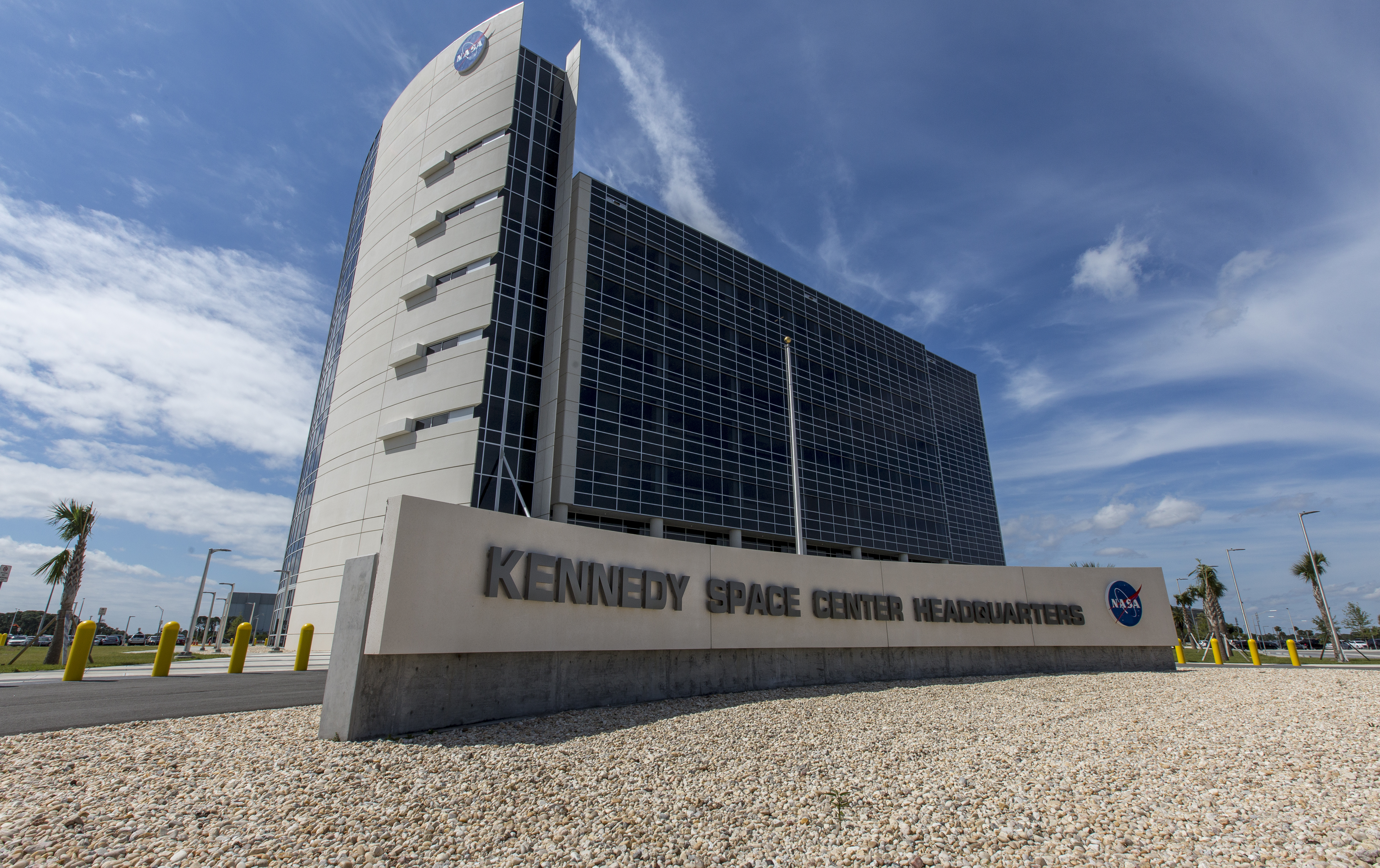 A view of the newly built 'central campus' Kennedy Space Center headquarters building in April 2019